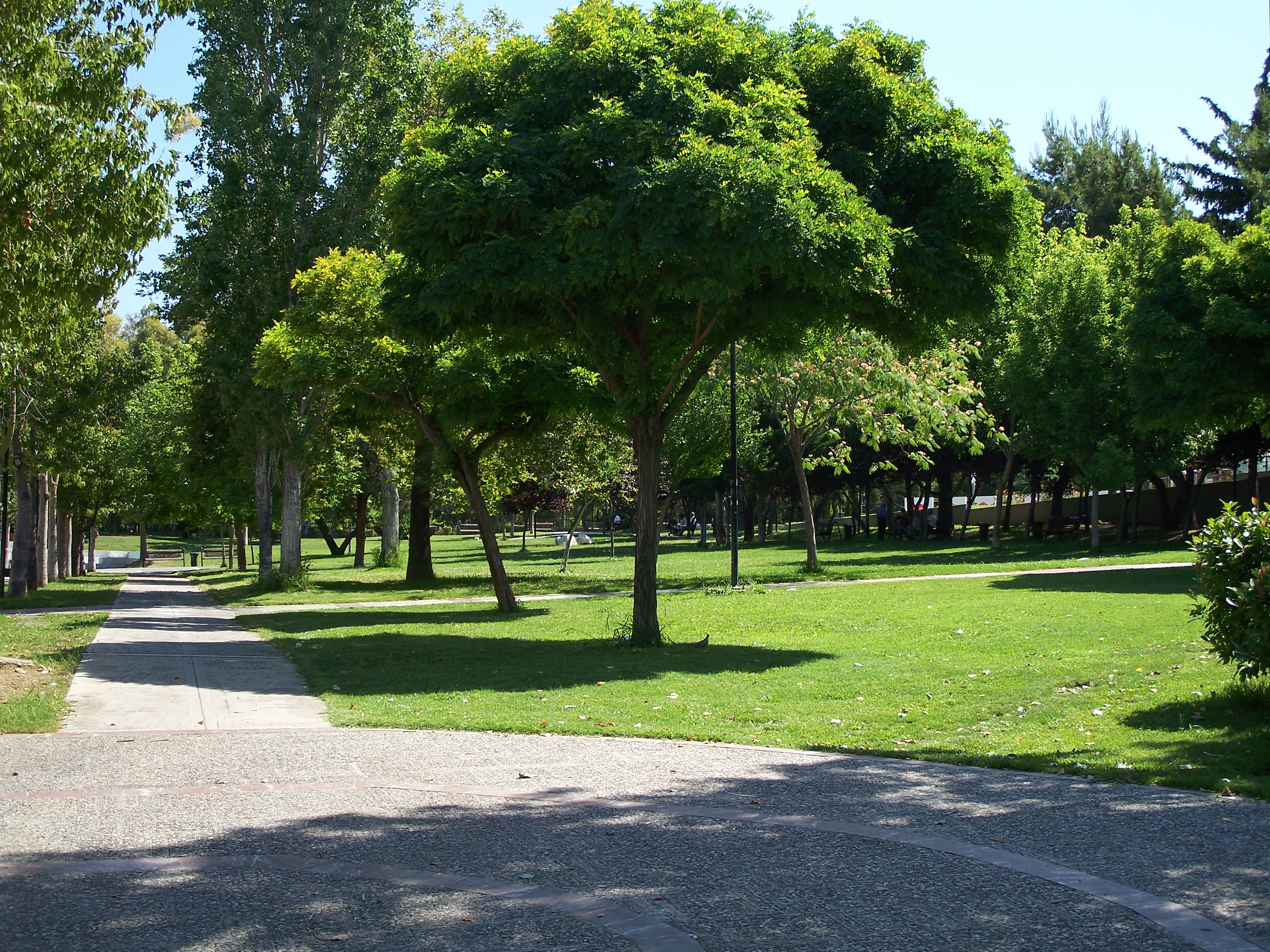 The municipal park (Άλσος Αιγάλεω)of Egaleo, Athens.